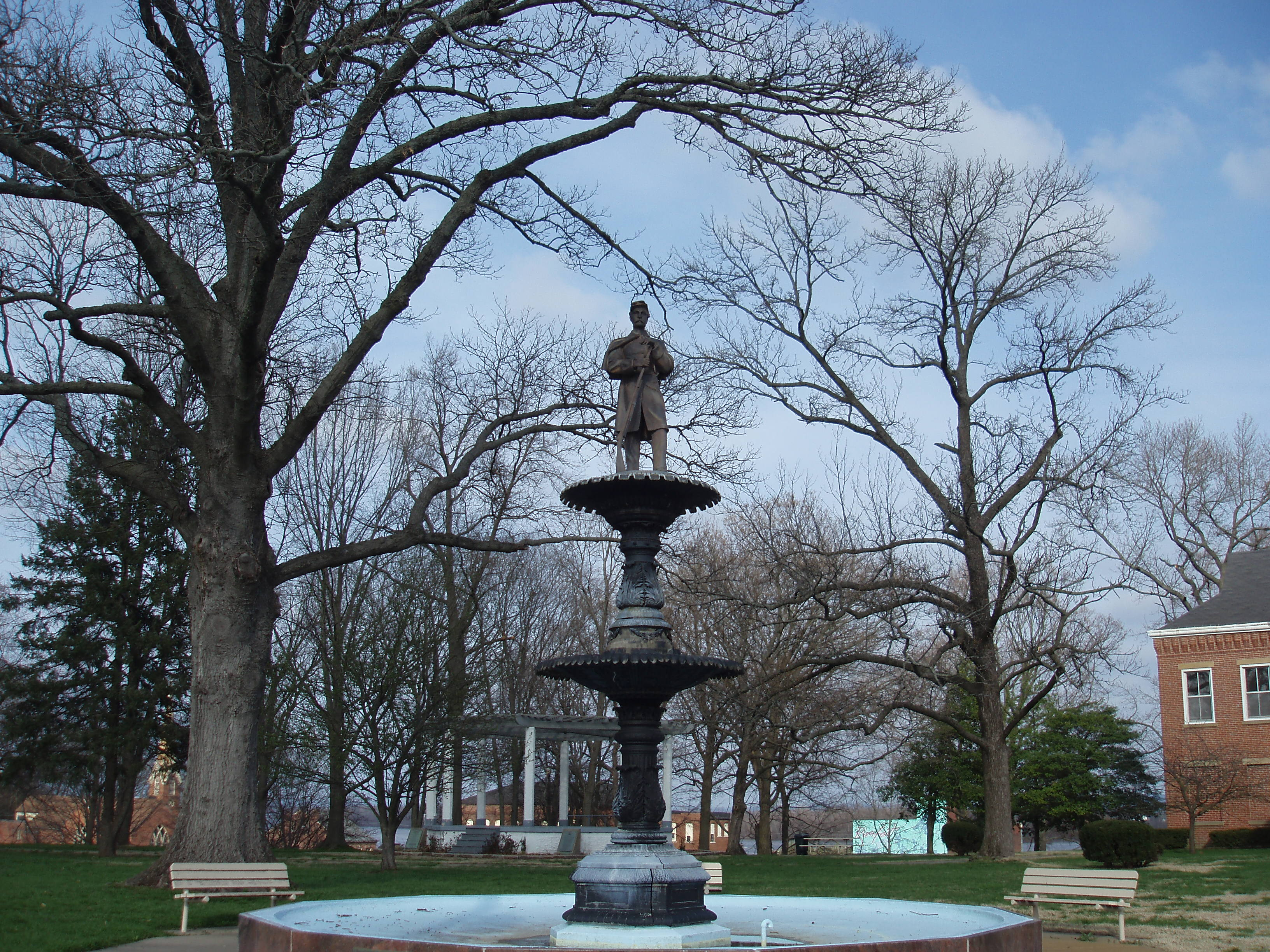 Confederate War Memorial Common Pleas Courthouse, Cape Girardeau, Missouri